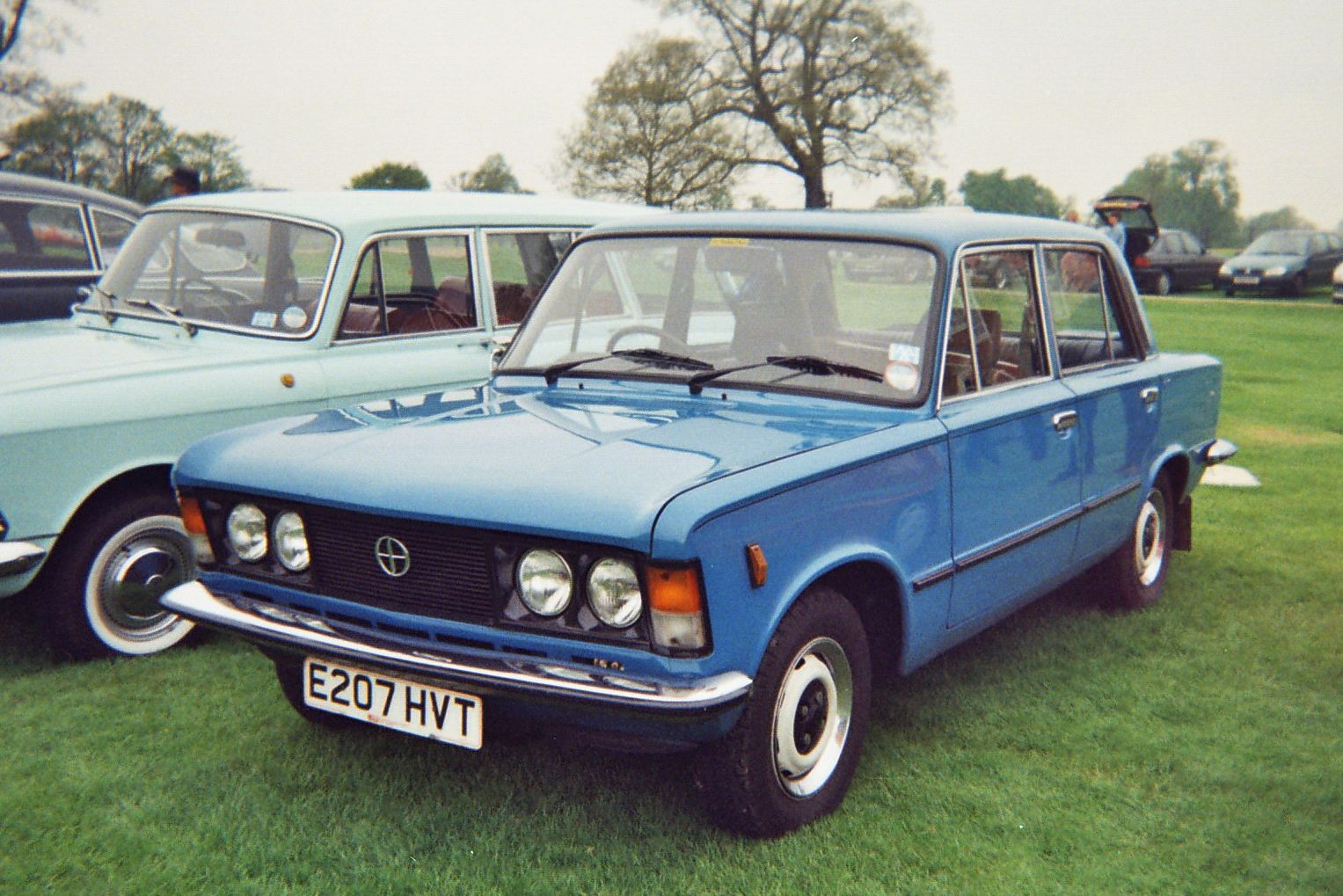 FSO 125p (model after 1983, with FSO badge) at the Wartburg/Trabant/IFA Club UK Rally 2006 in Stanford Hall. Photo by Asterion talk to me